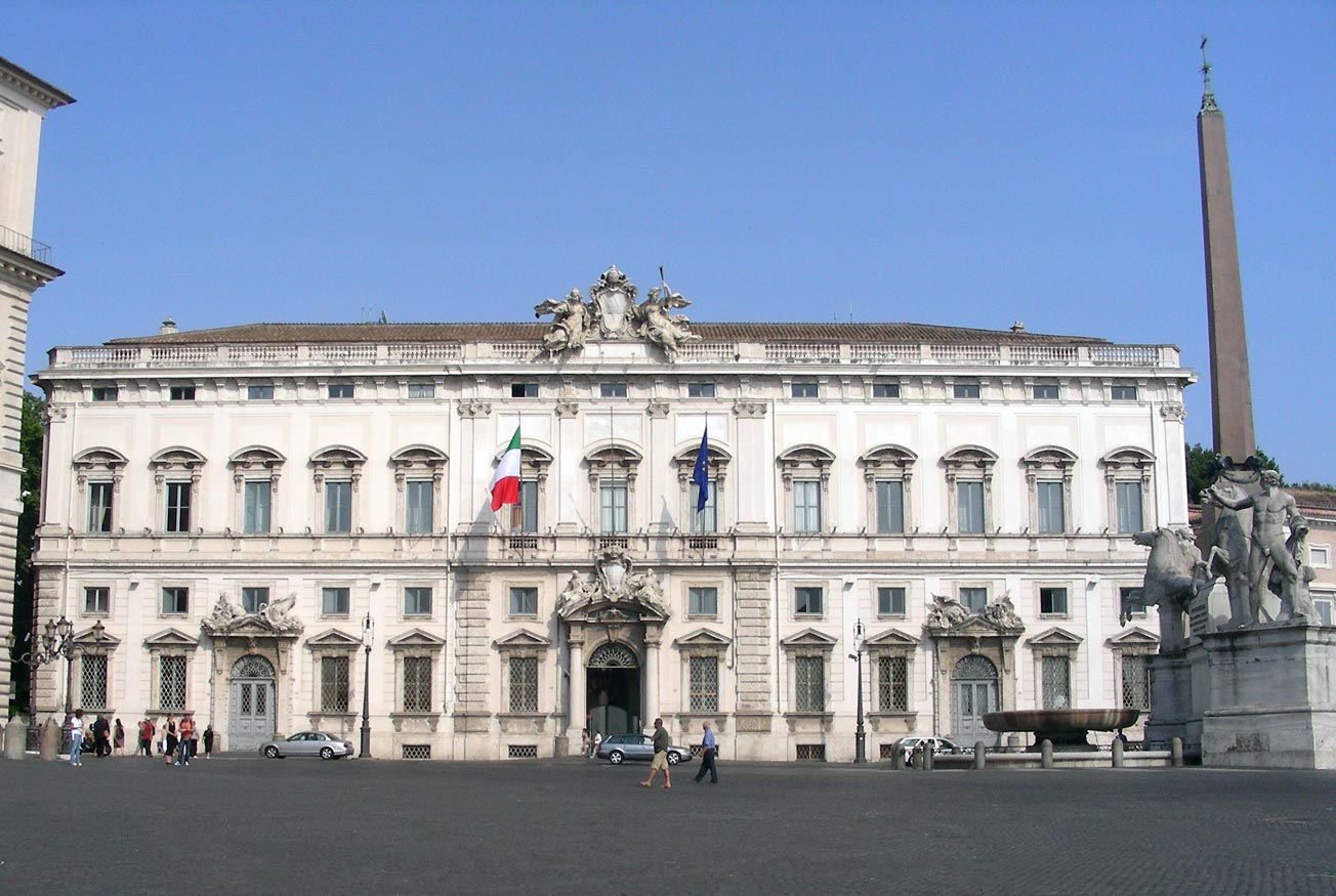 Palazzo della Consulta in Rome, front side